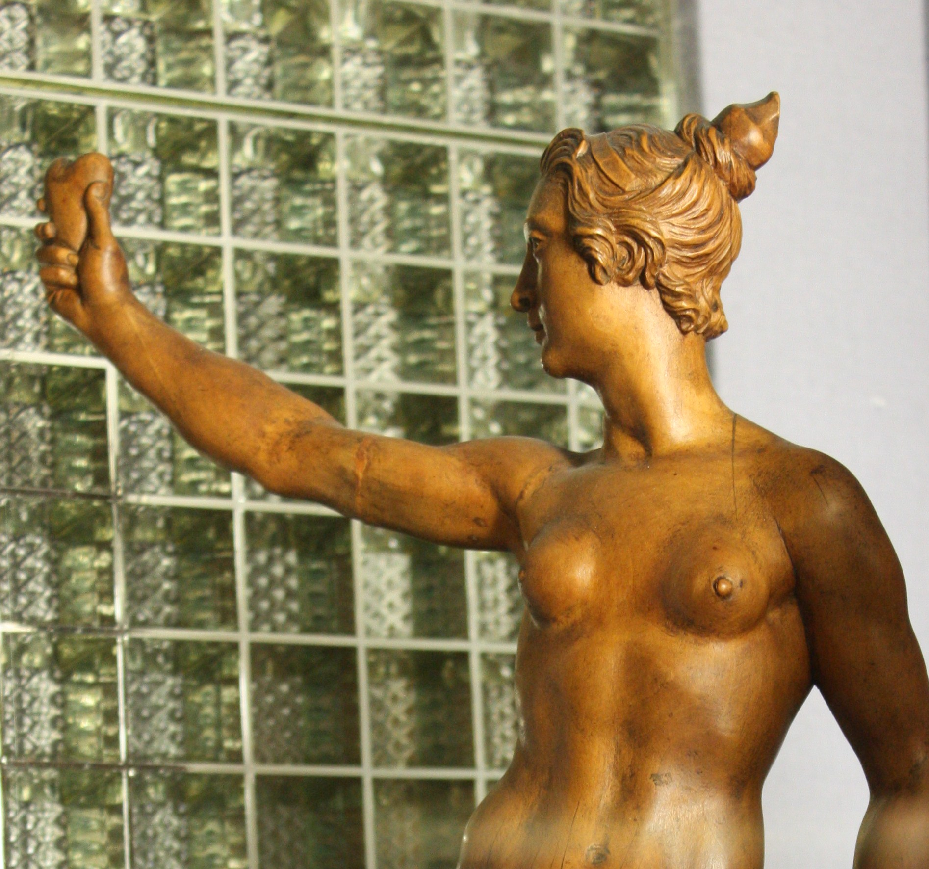 Venus holding a heart South Netherlandish, Antwerp Around 1600 Pearwood Venus is the Roman goddess of love and she would have originally been shown accompanied by a figure of Cupid. The elongated proportions of the body are typical of Netherlandish sculpture of the late sixteenth and early seventeenth century. Museum no 344-1885 Wikipedia Loves Art at the Victoria and Albert Museum This photo of item # 344-1885 at the Victoria and Albert Museum was contributed under the team name "va_va_val" as part of the Wikipedia Loves Art project in February 2009. Victoria and Albert Museum The original photograph on Flickr was taken by Val_McG—please add a comment to the original Flickr page whenever a use has been made on Wikipedia or another project. Project galleries on Flickr: this institution, this team